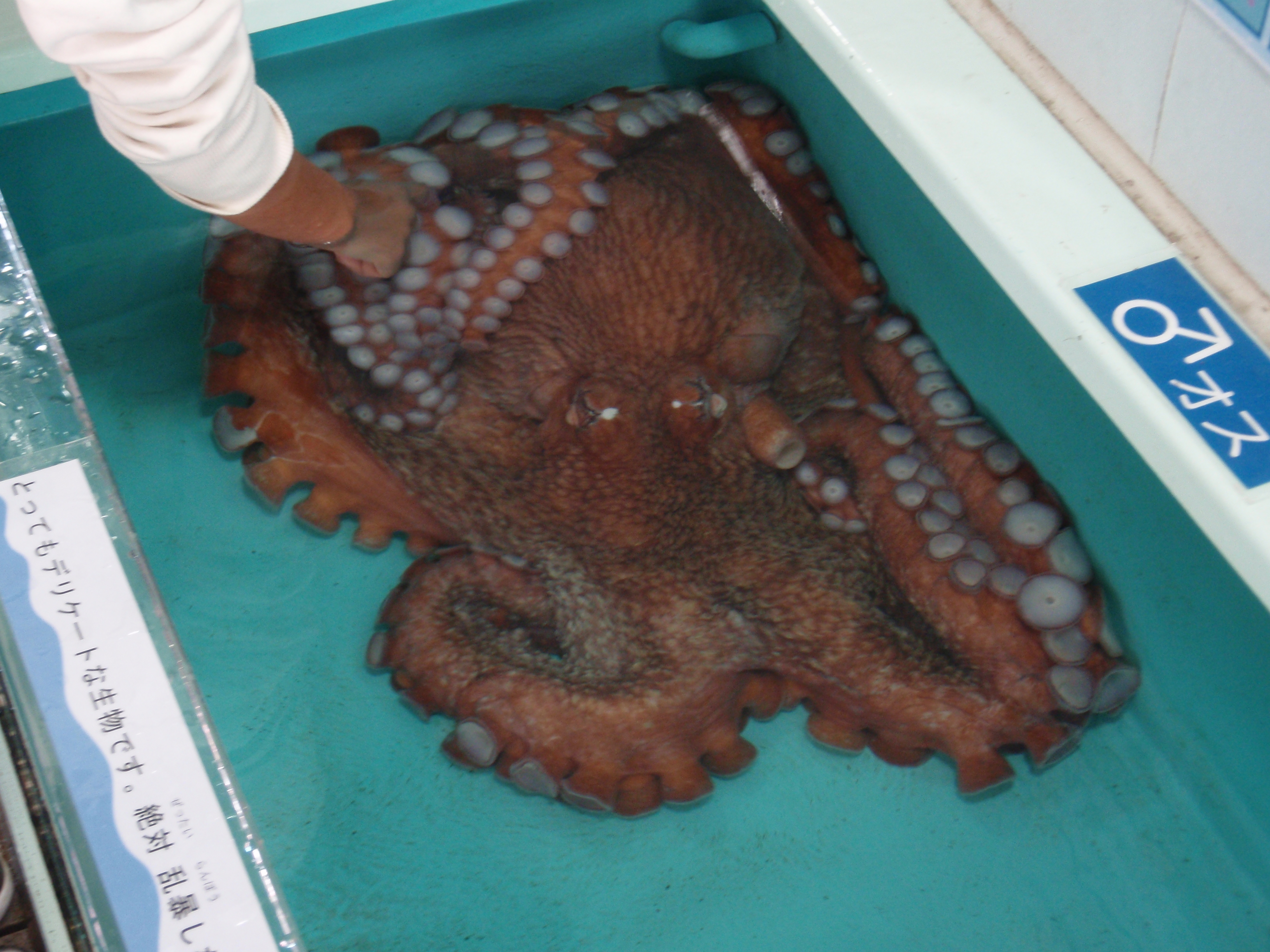 North Pacific Giant Octopus in Echizen Matsushima Aquarium, Japan (Enteroctopus dofleini)